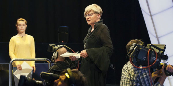 Željka Ogresta on the final rehearsal before the premiere of the new season (2014.)